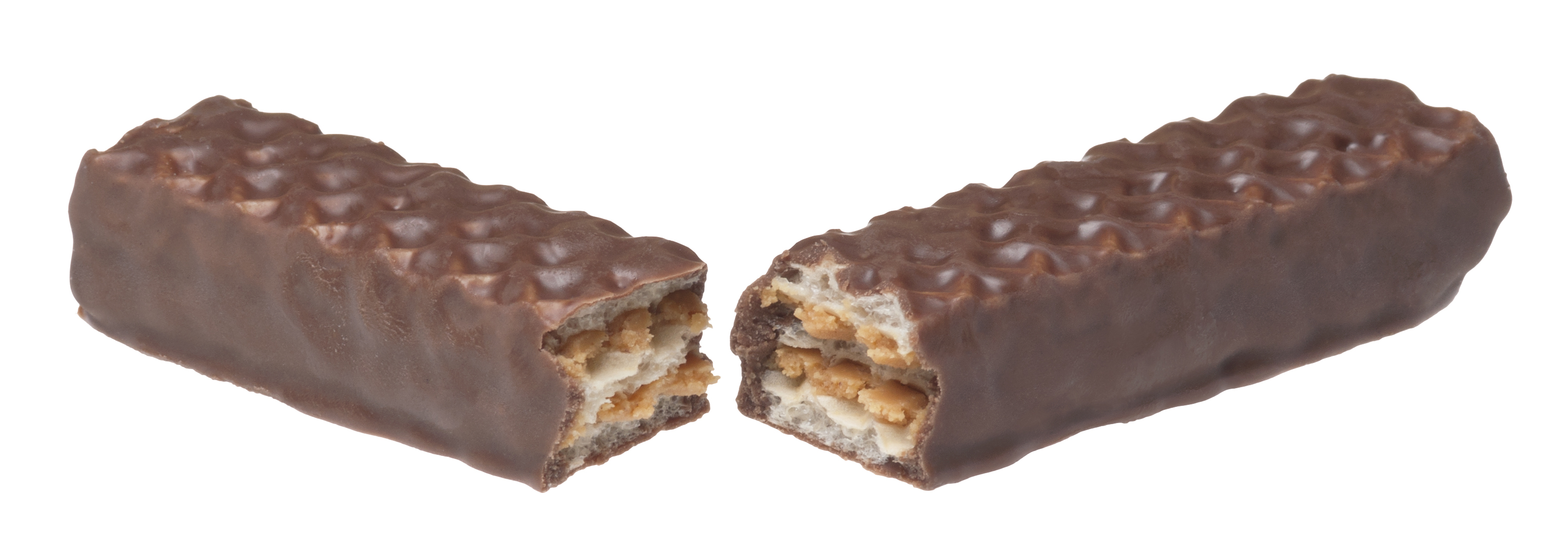 A Reese's Stick (ReeseSticks) that has been split in half.